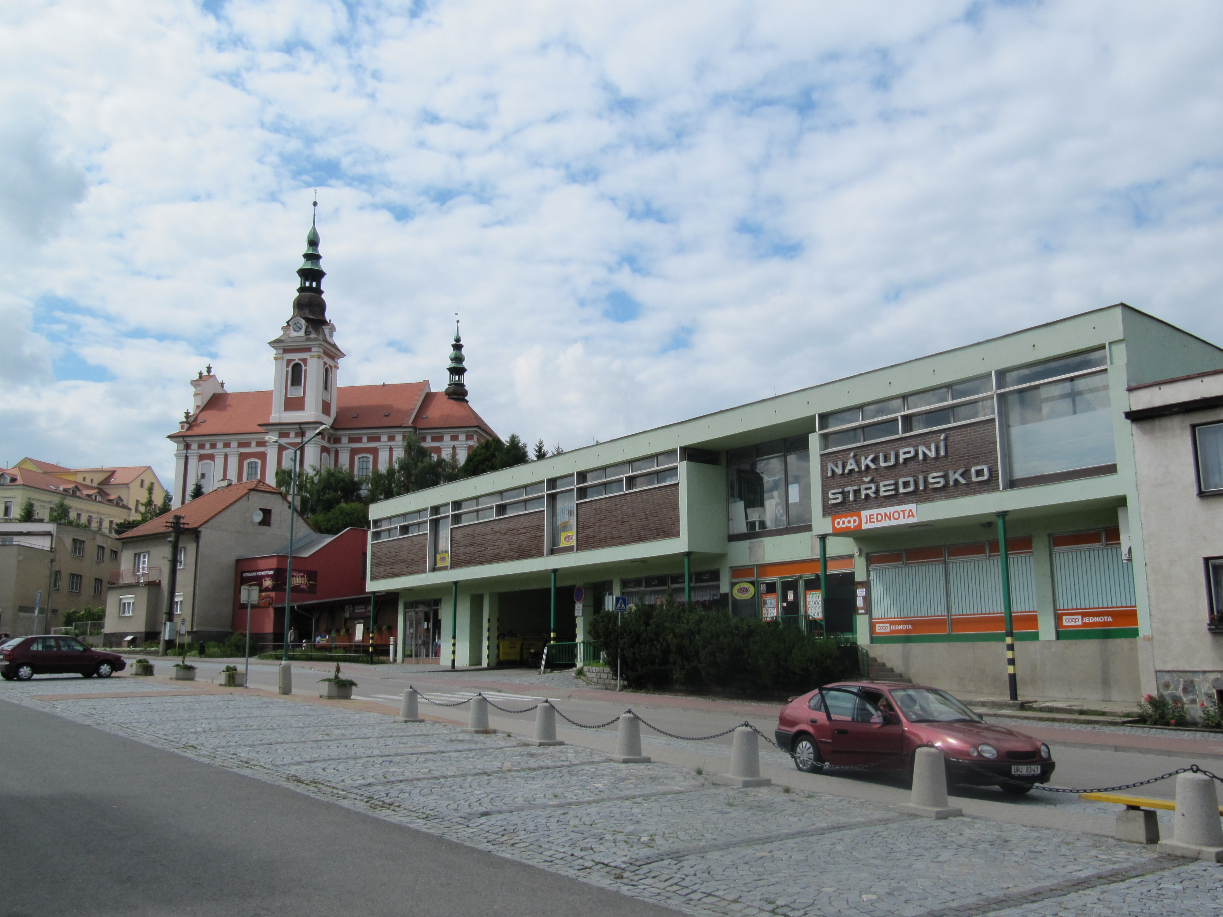 Polešovice in Uherské Hradiště District, Czech Republic. Center of the village with a shopping center and the church of St. Peter and Paul.